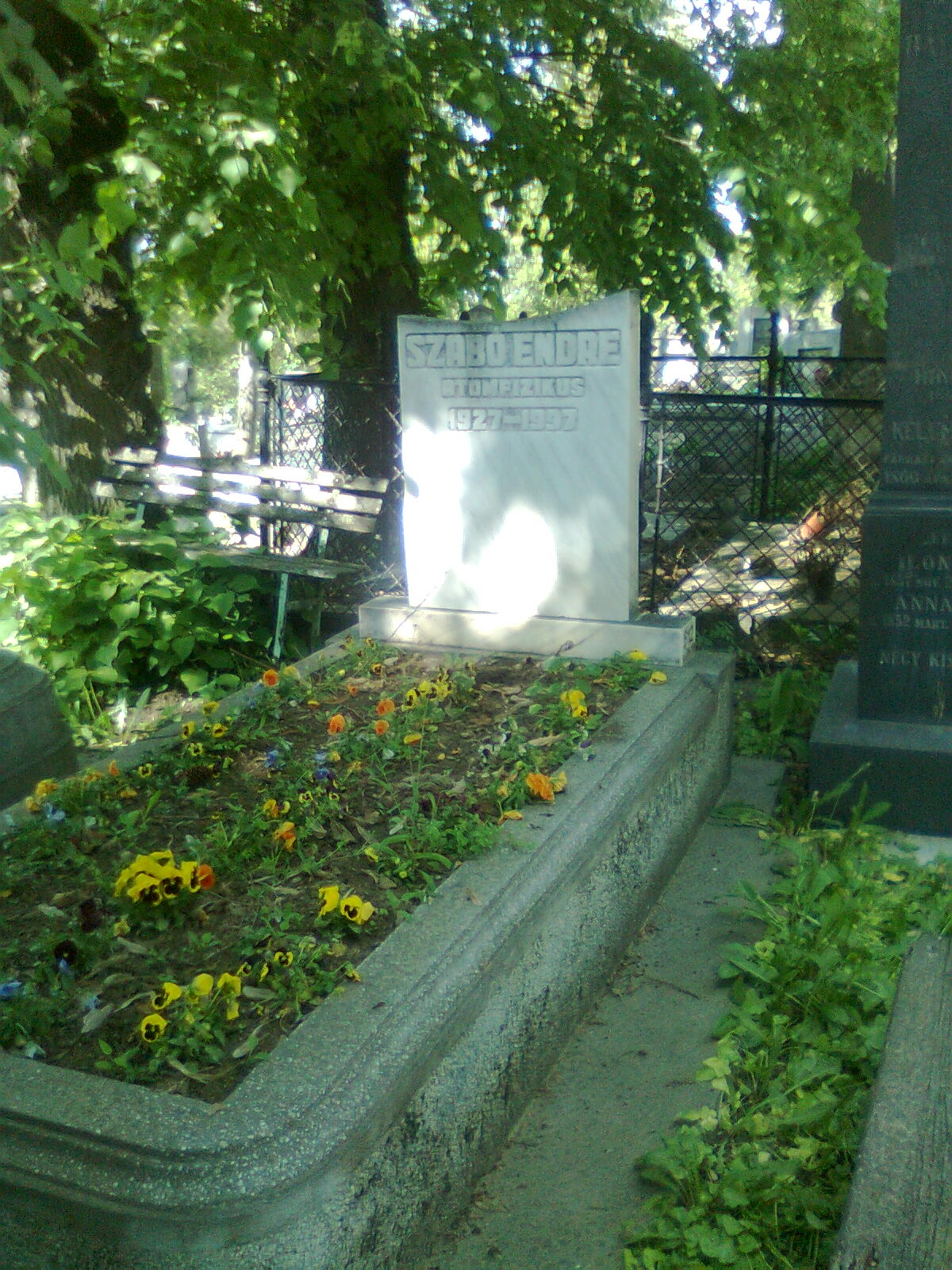 Grave of physicist Endre Szabó